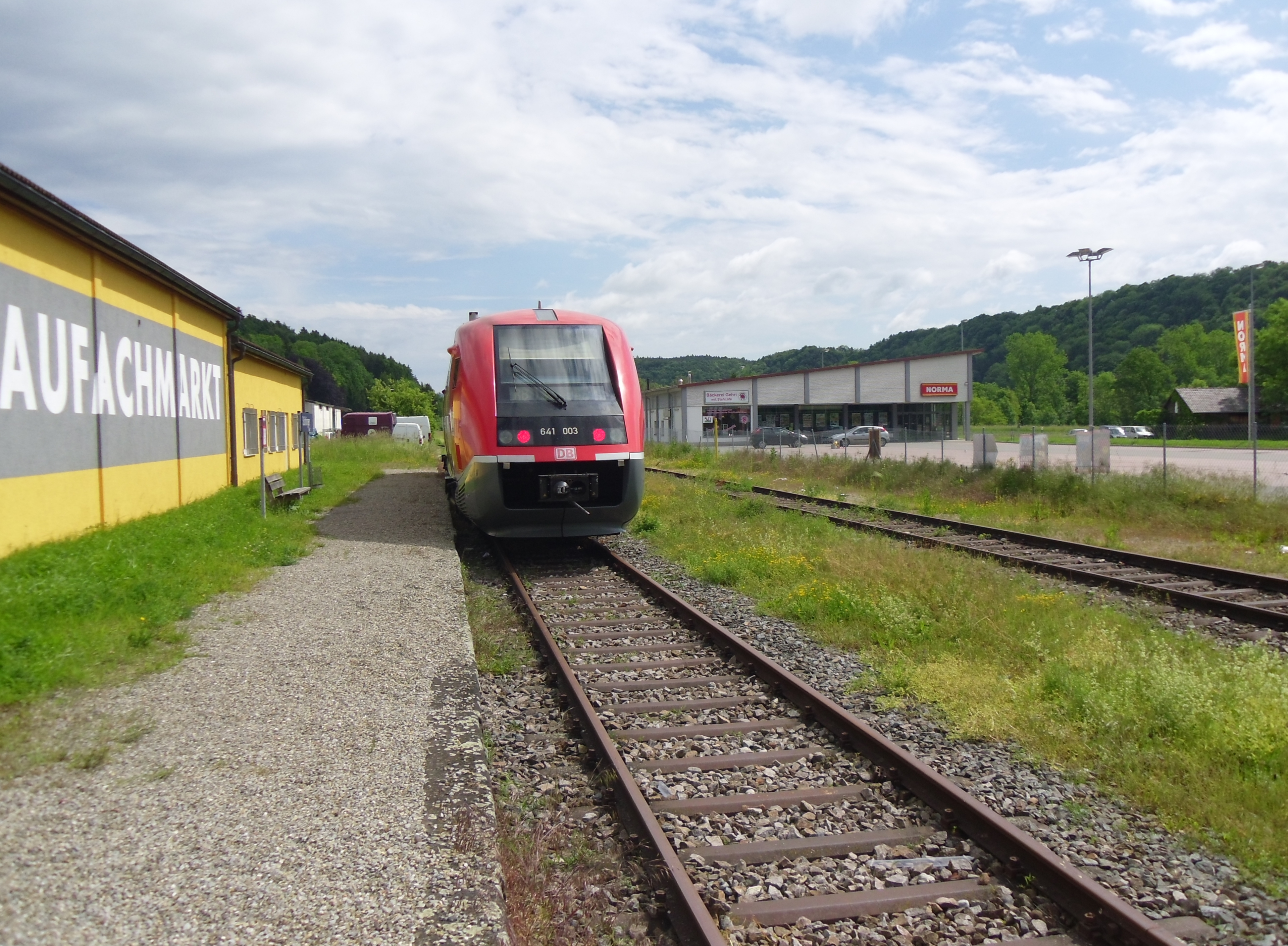 stühlingen